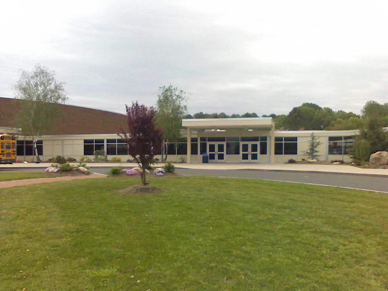 Suffern High School, picture of front entrance, Suffern, New York